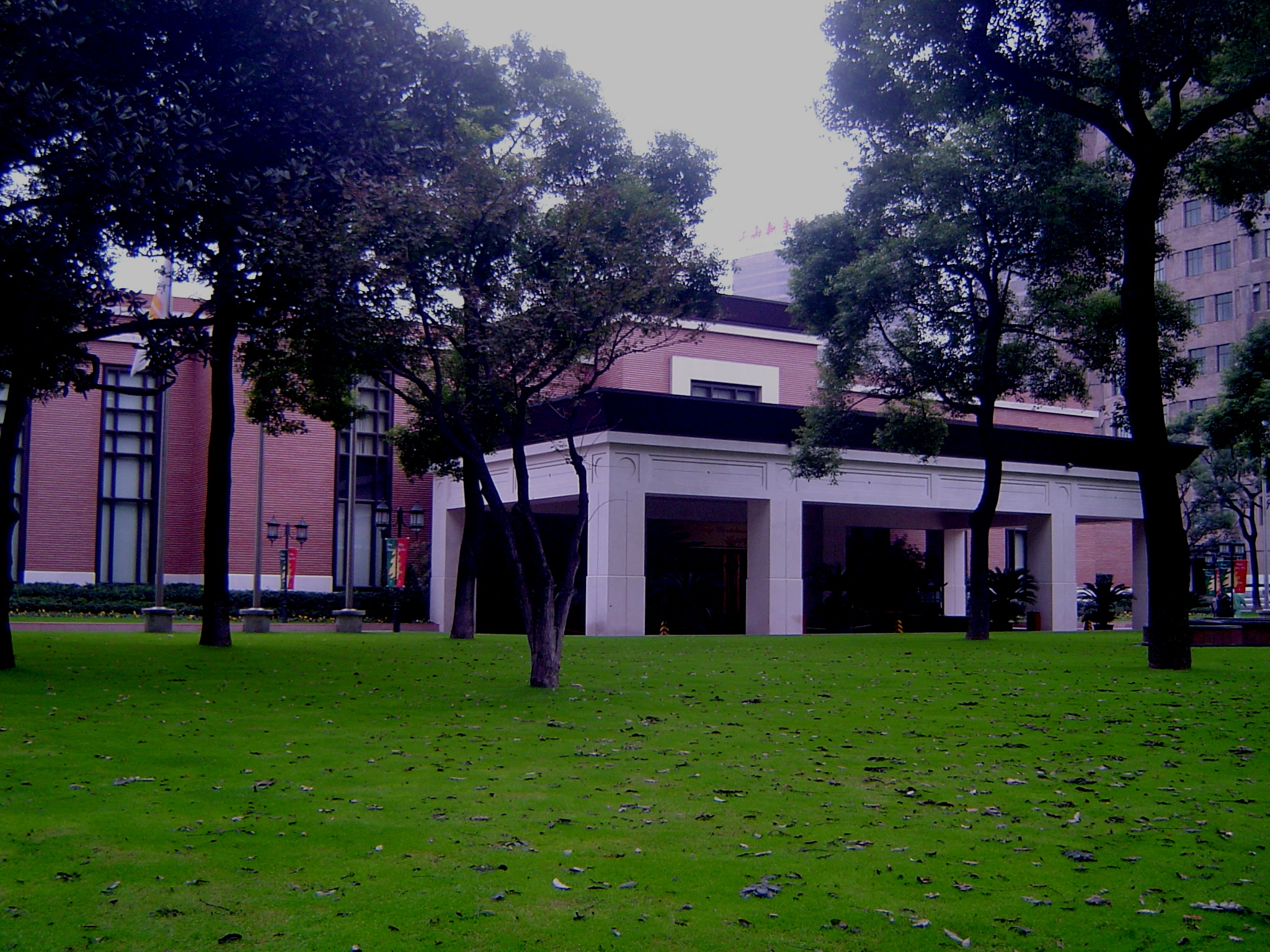 The hall at Jinjiang Hotel, Shanghai, China, where the Shanghai Communiqué was signed to re-establish diplomatic relations between the People's Republic of China and the United States of America, Photo taken by Sumple on 8/12/2006. As a courtesy, and entirely voluntarily, please notify me if you change this image or its description.